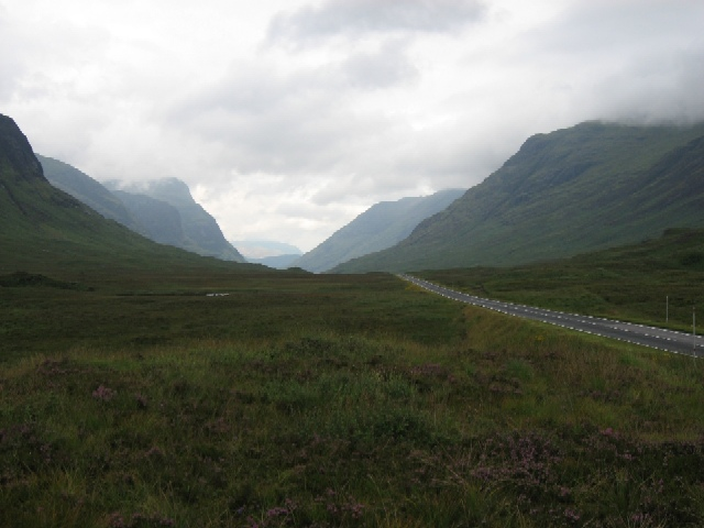 Glen Coe. As seen from near the parking area below Cnoc nam Bocan.